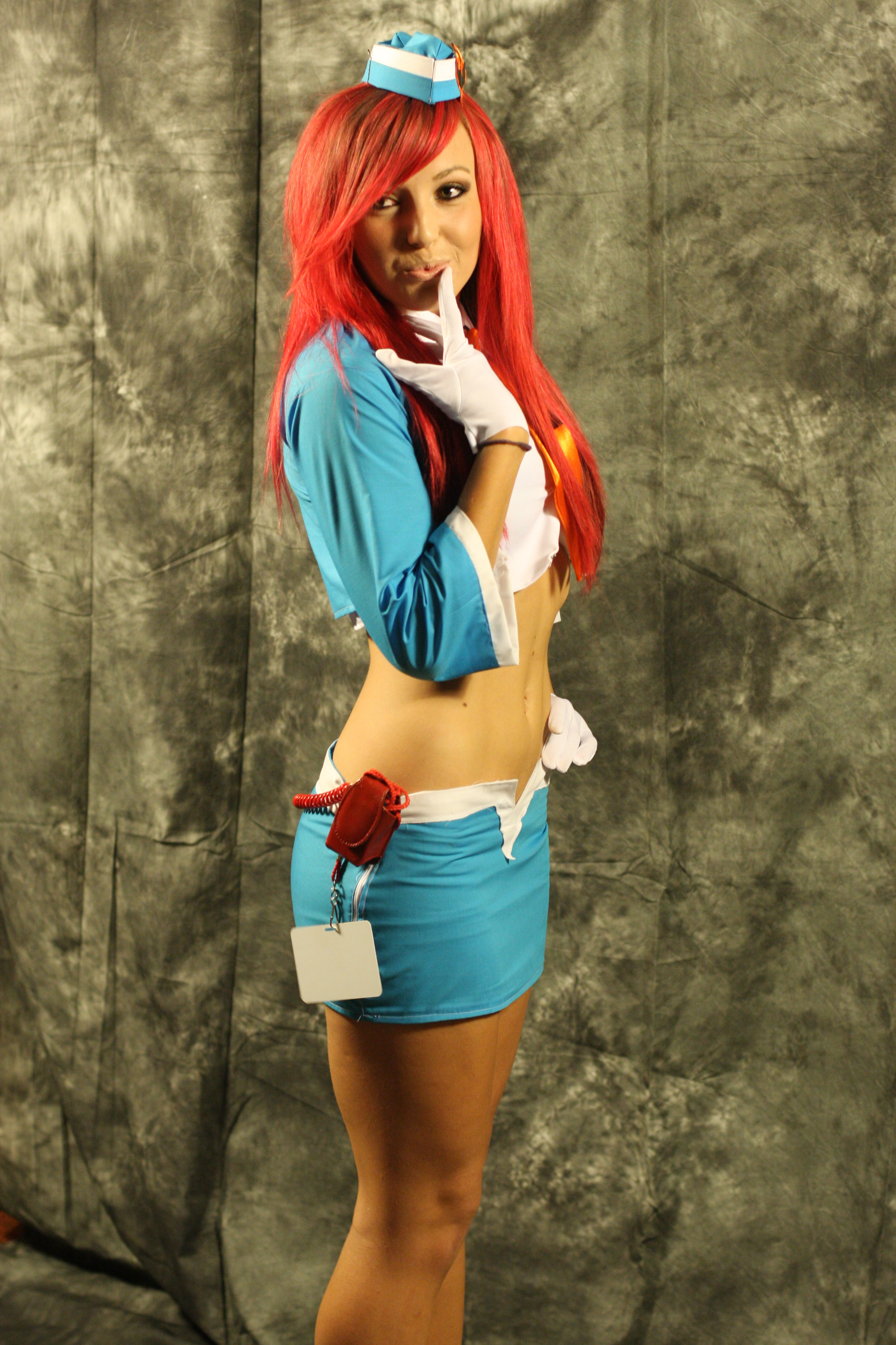 Yoko S.T.A.R.S. at Saboten-Con in Mesa, Arizona, Halloween October 31, 2009.